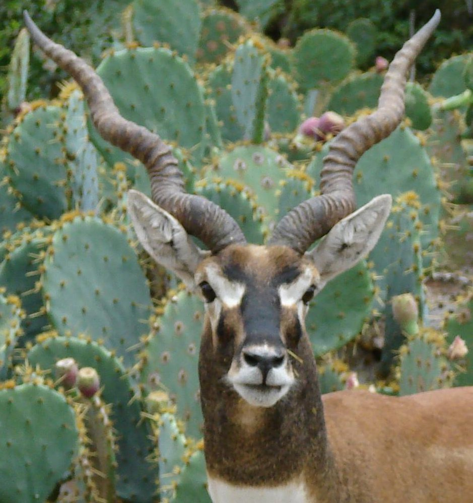 Photo taken by me, July 2006.